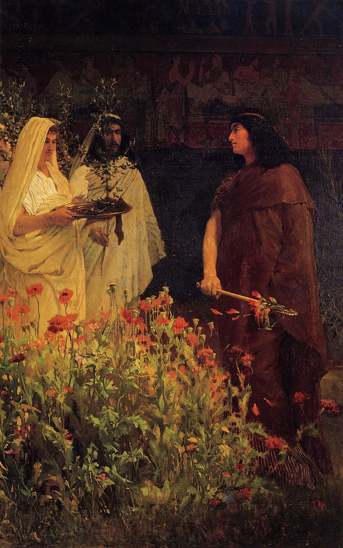 Tarquinius Superbus, Sir Lawrence Alma-Tadema - 1867, Private collection, Painting - oil on panel